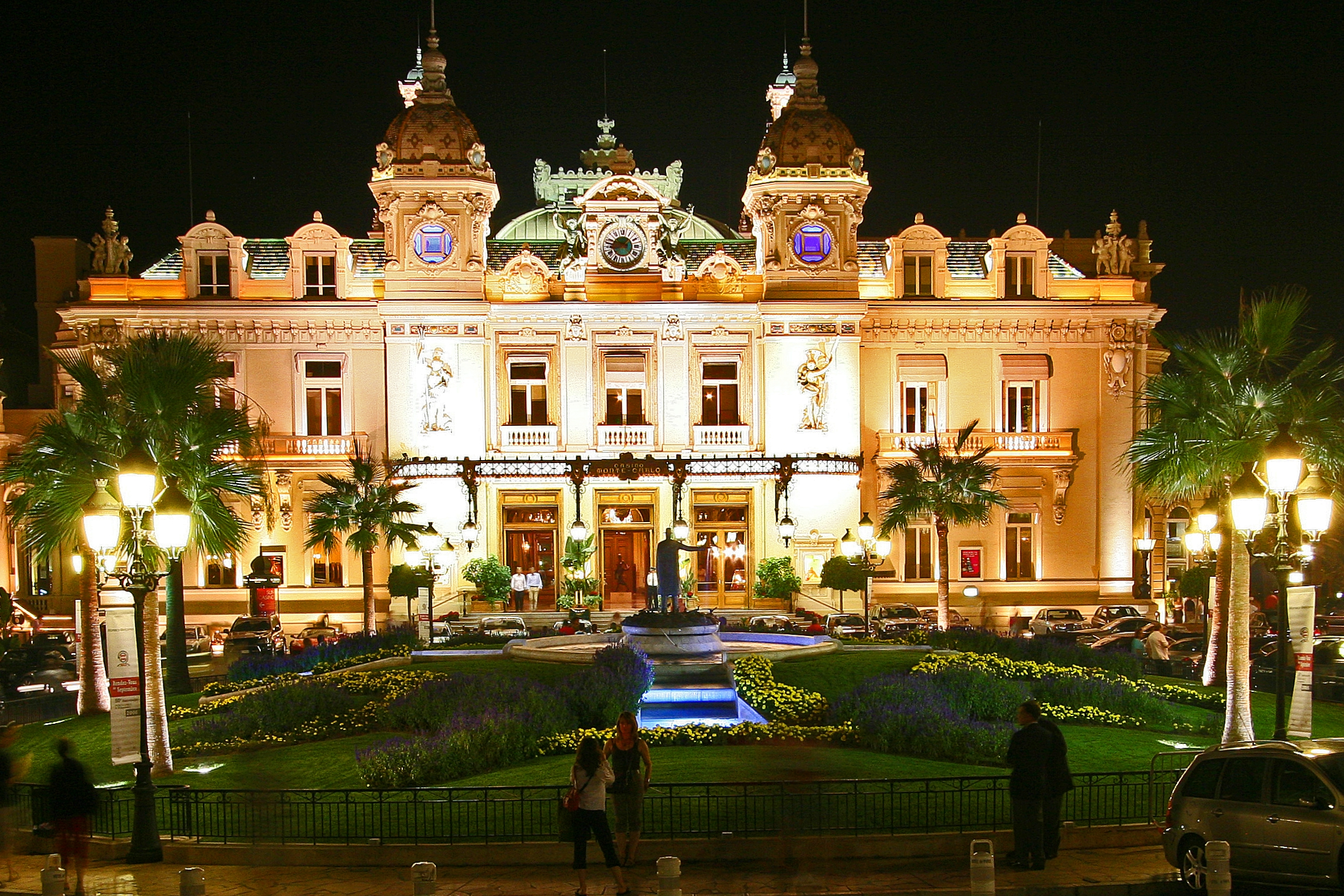 the "real" Monte Carlo Casino - France.